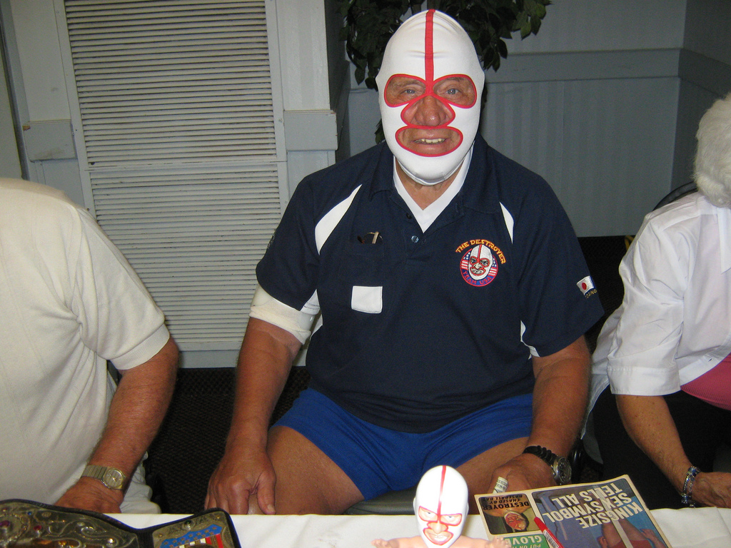 The Destroyer, Dick Beyer.